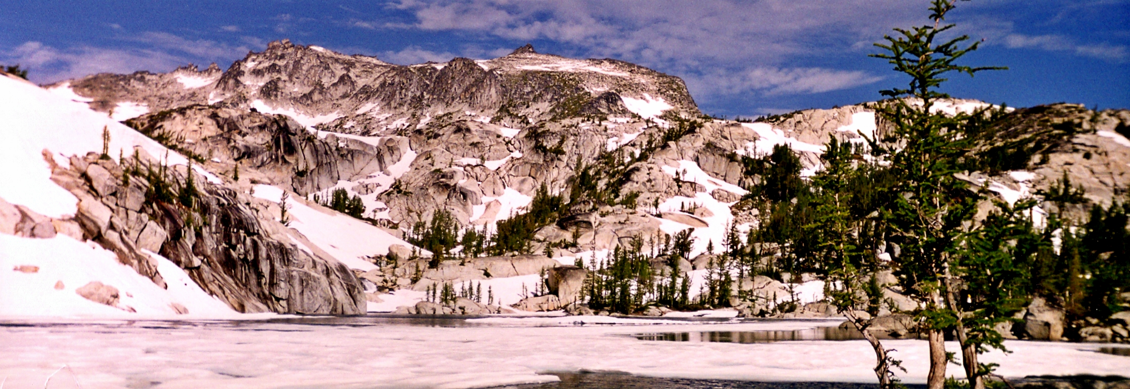 Enchantment Peak seen from partially thawed Leprechaun Lake on July 8,1998. Enchanted Lakes aka The Enchantments in Washington state